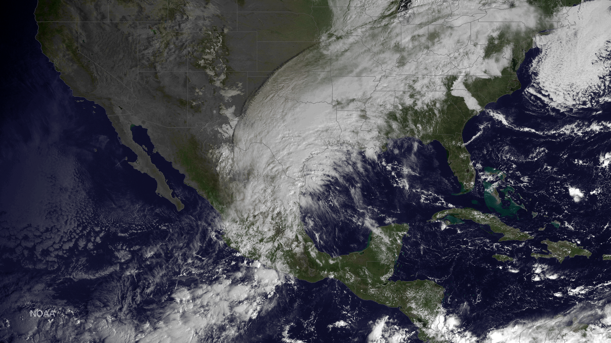 This image was taken by GOES East at 1445Z on October 24, 2015.